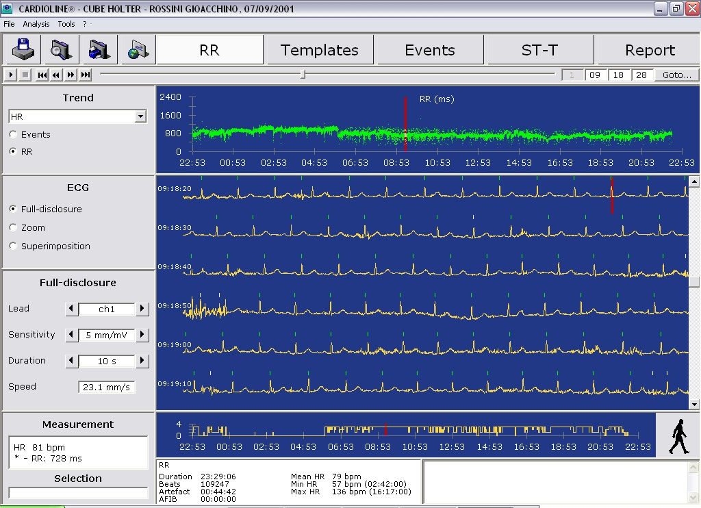 Example of holter ECG software screen shot.